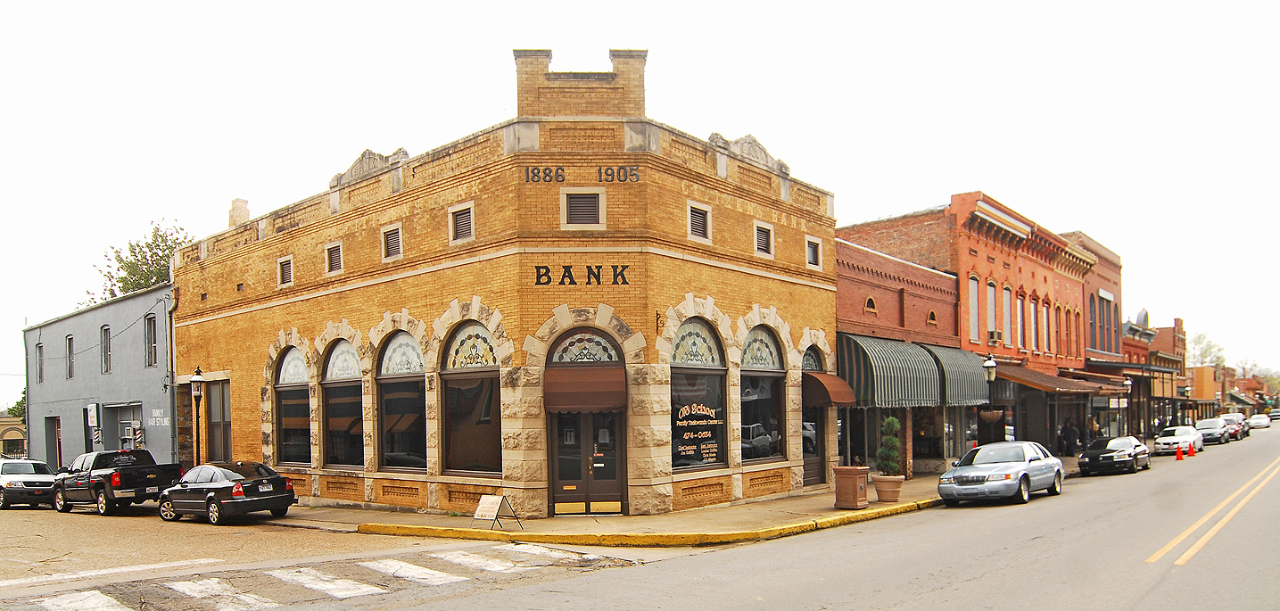 historic downtown Van Buren